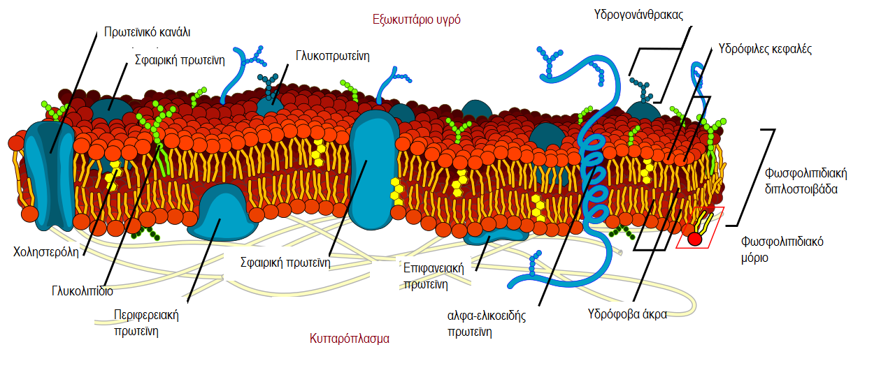 The cell membrane, also called the plasma membrane or plasmalemma, is a semipermeable lipid bilayer common to all living cells. It contains a variety of biological molecules, primarily proteins and lipids, which are involved in a vast array of cellular processes. It also serves as the attachment point for both the intracellular cytoskeleton and, if present, the cell wall.